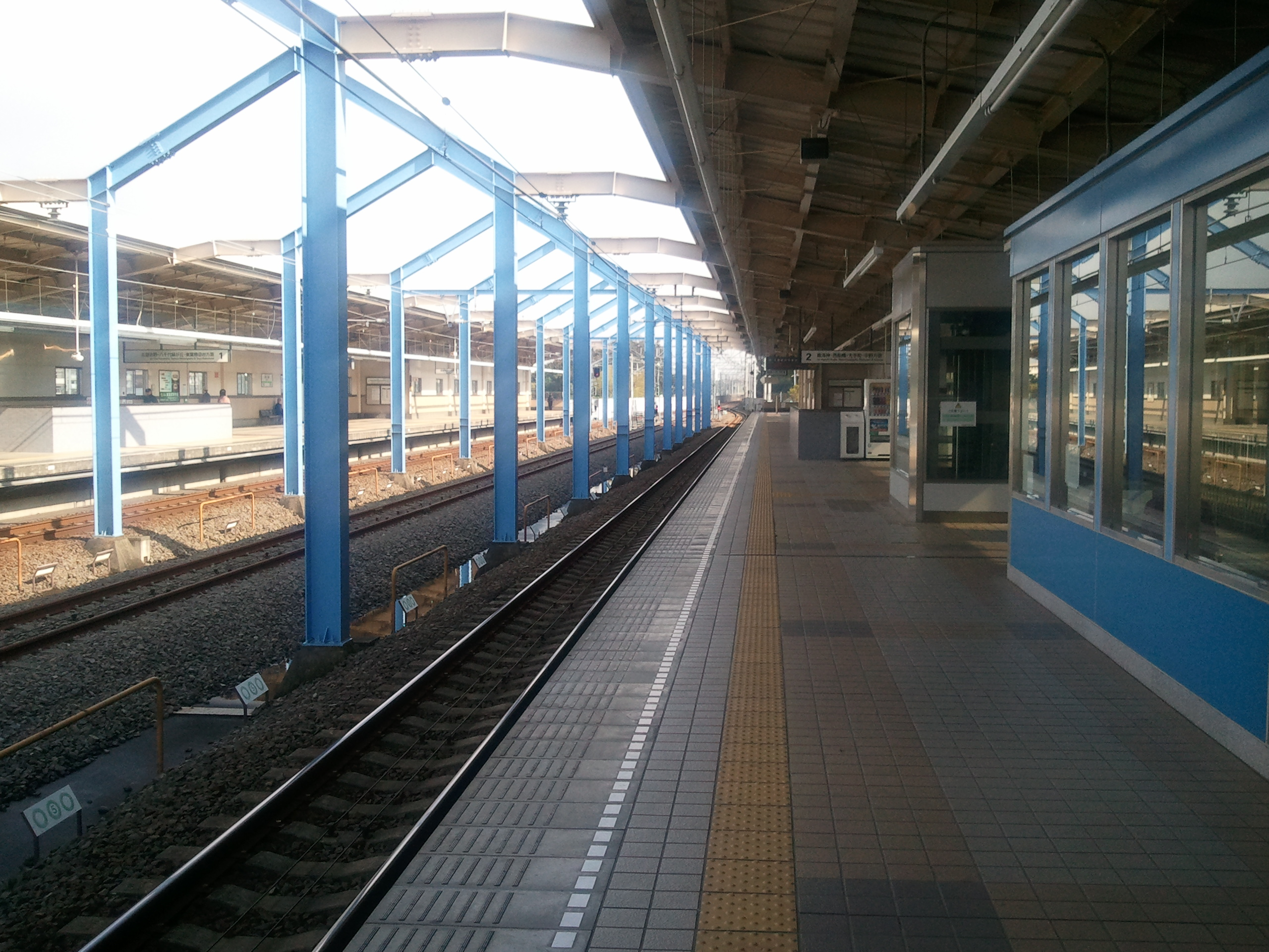 Platforms of Hasama Station on the Tōyō Rapid Railway Line